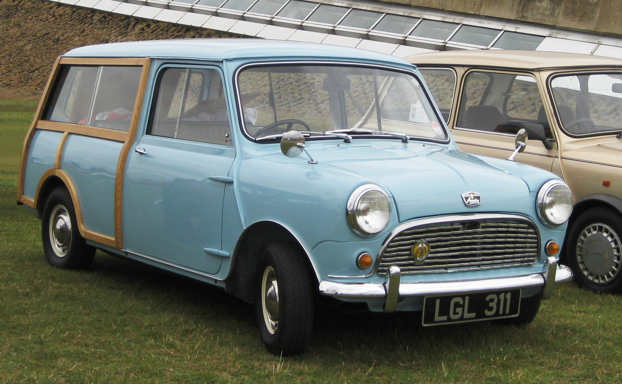 Austin Seven Countryman first registered 1961 (LGL 311) which makes it a very early one